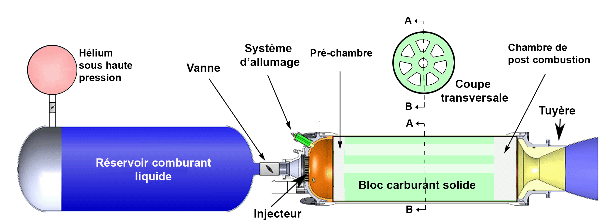 Conceptual schematic of a hybrid rocket propulsion system - french version.